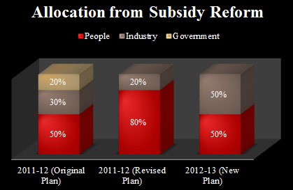 2011-2013: Money saved from subsidy reform (Allocation by sector)/Original & Revised plans & Second phase.